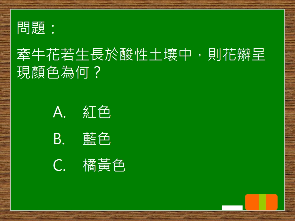 Screenshot simulation from the TV show Are You Smarter Than The Primary School Students? Taiwanese version.